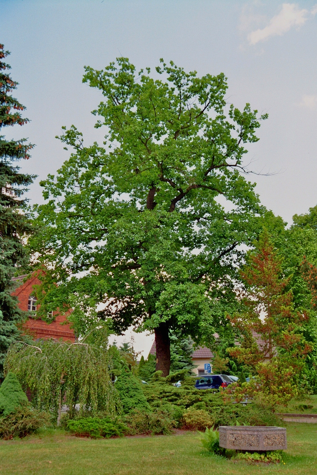 Luther oak (Luther-Eiche) beside the lutheran church in Burg (Spreewald), Landkreis Spree-Neiße, Brandenburg, Germany.